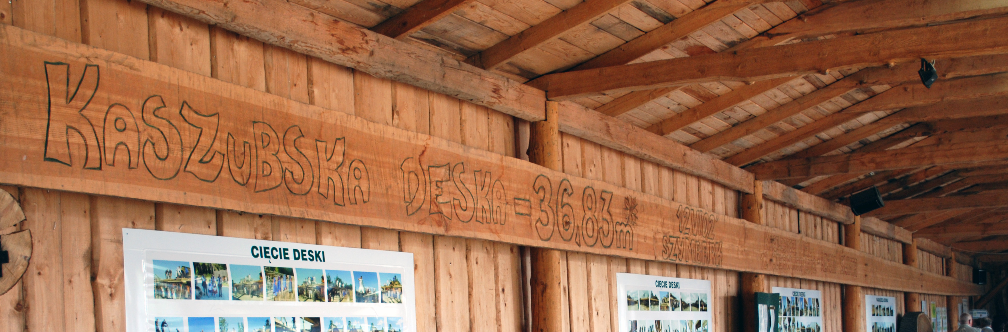 Pseudotsuga menziesii board (36,83 m long), Szymbark, Poland